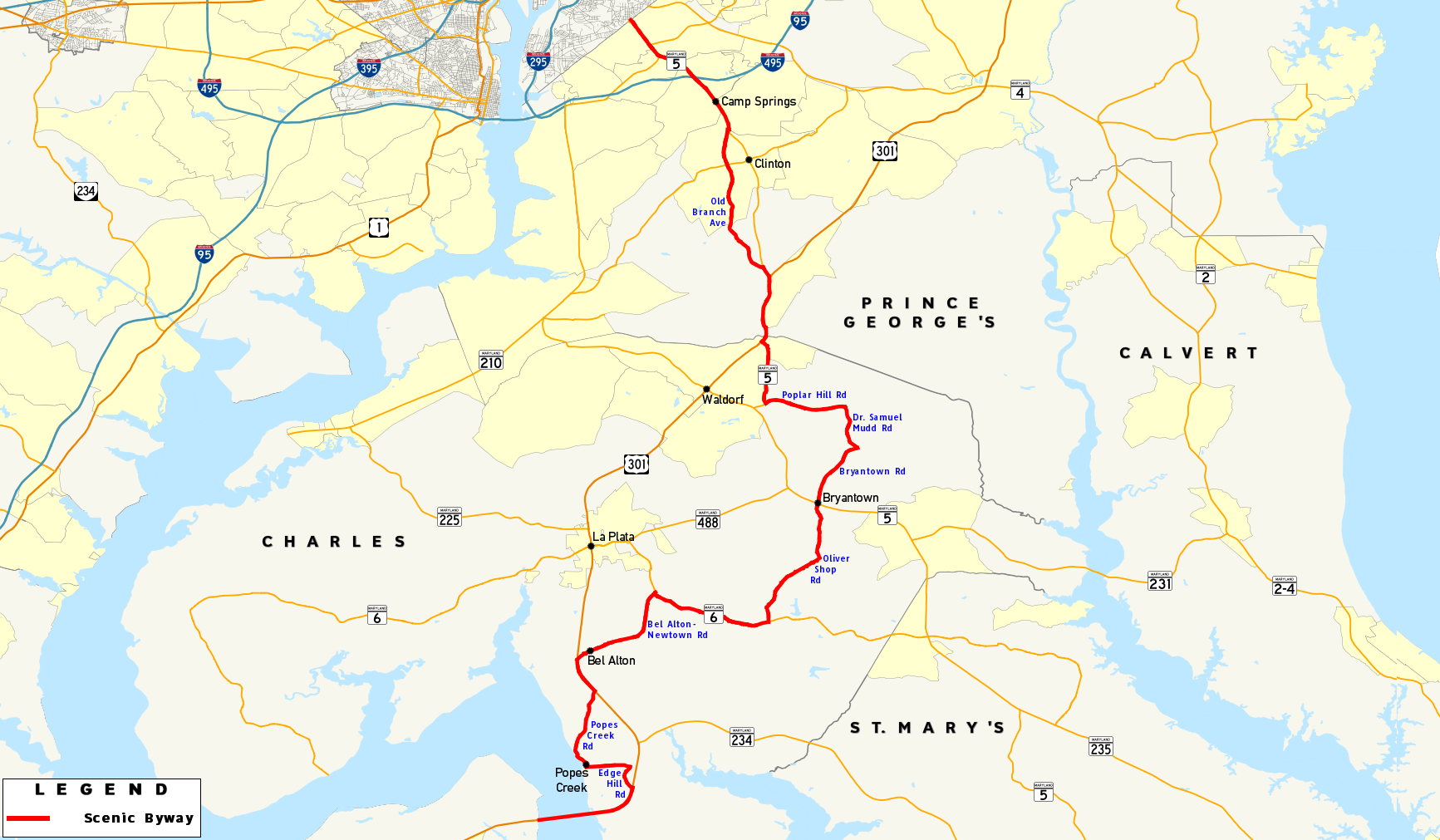 Test Map for MD Scenic Byway #14, Booth's Escape.